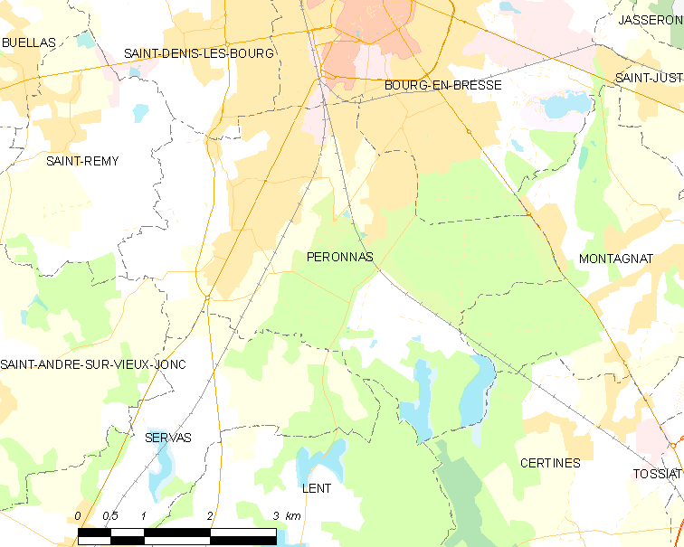 Map of French commune: Péronnas Map commune FR insee code 01289.png